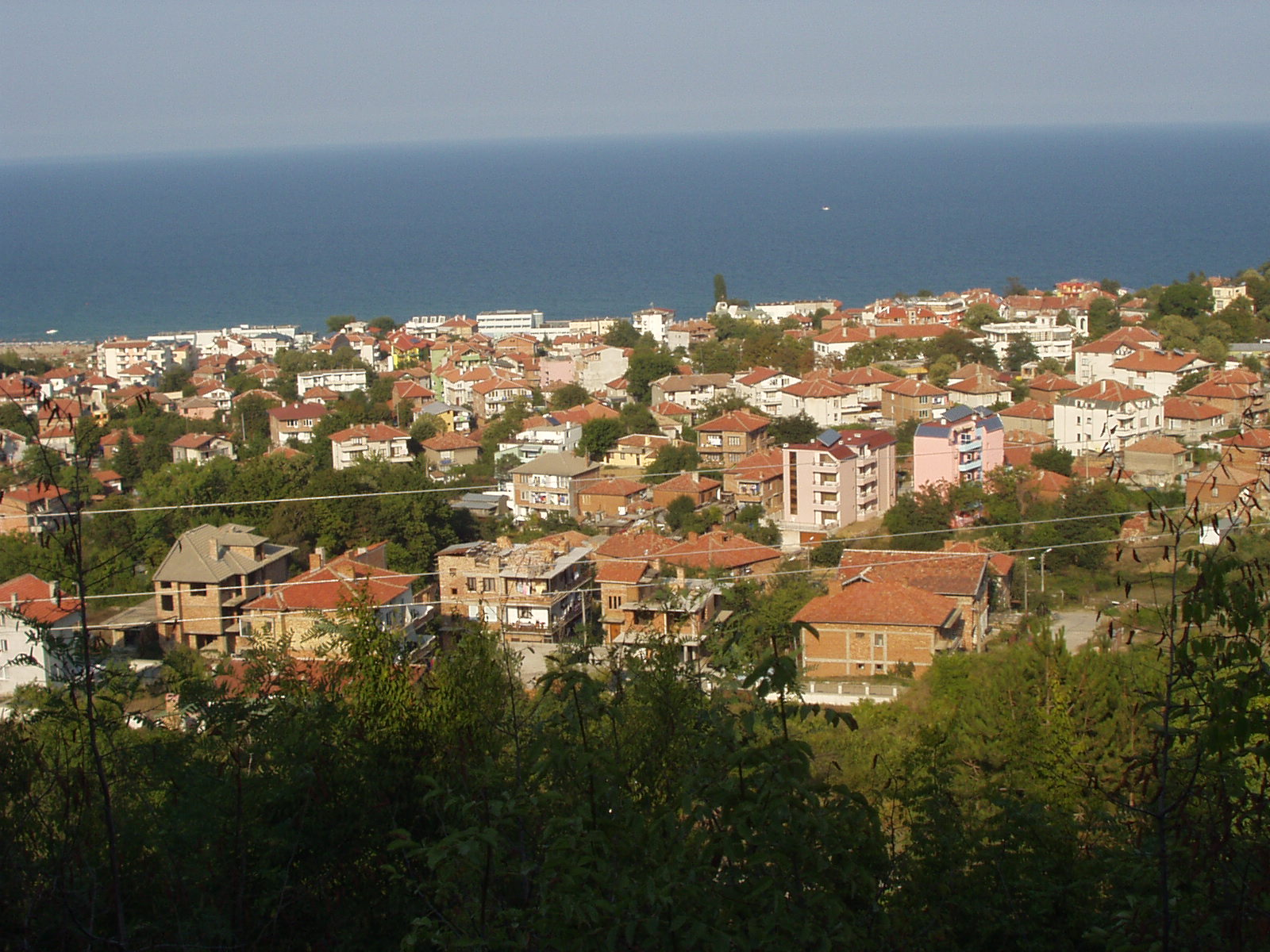 Obzor (Bulgaria): view from the mountains on the town, photo 1